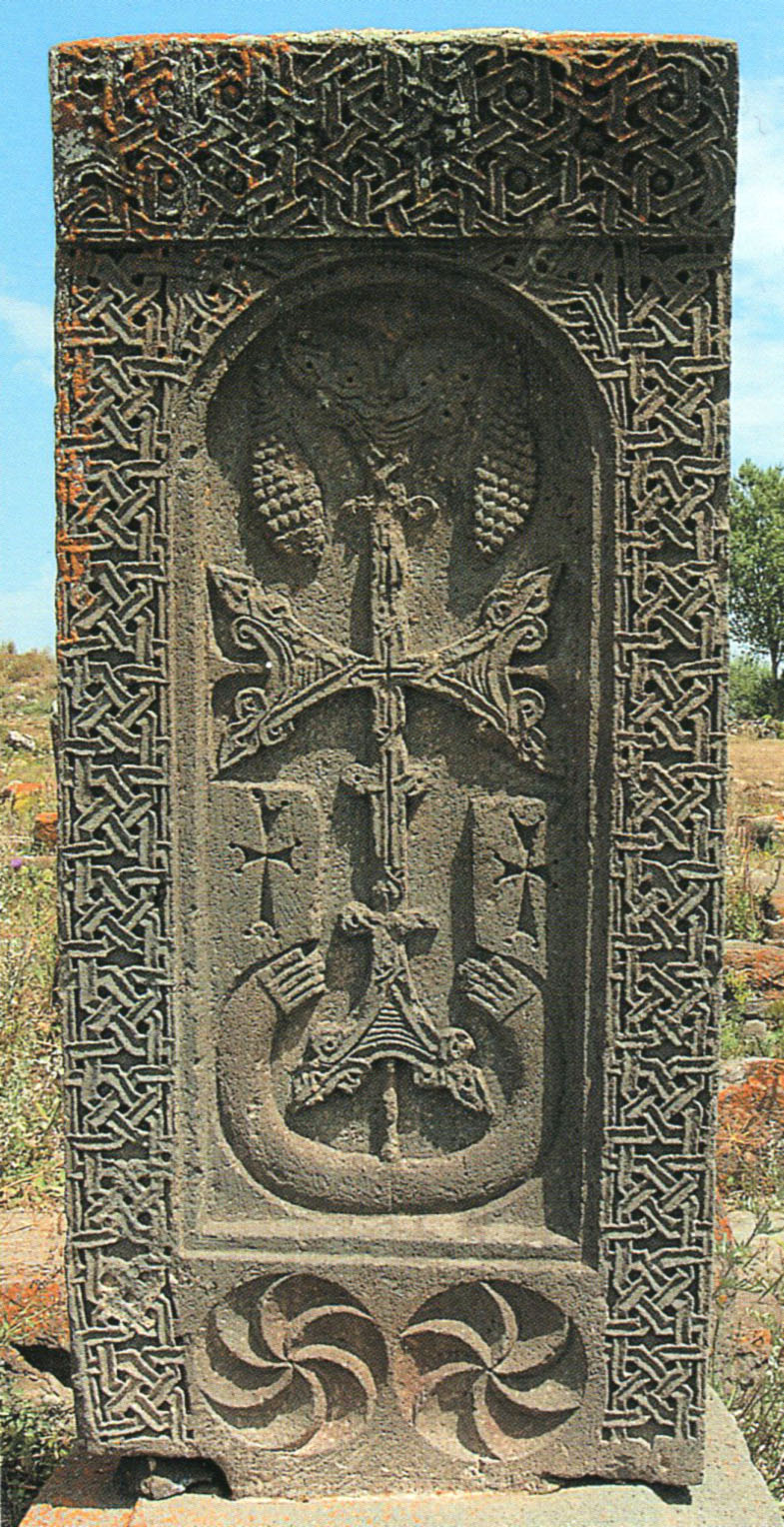 Khachqar in Angeghakot, Sisian, Armenia, 15th-16th century 13/2.1.1.2